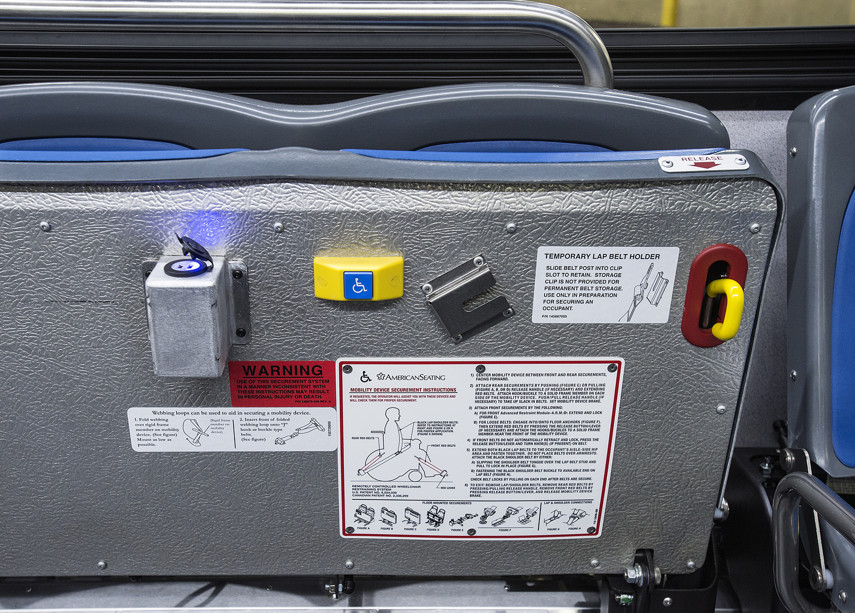 Governor Cuomo joined MTA Chairman Tom Prendergast to announce the arrival of the first of 75 new buses that are being deployed into service this year as part of a concentrated effort to address overcrowding and modernize the MTA. In March, the Governor announced the addition of 2,042 buses, equipped with Wi-Fi and USB charging ports. Photo: Metropolitan Transportation Authority / Patrick Cashin